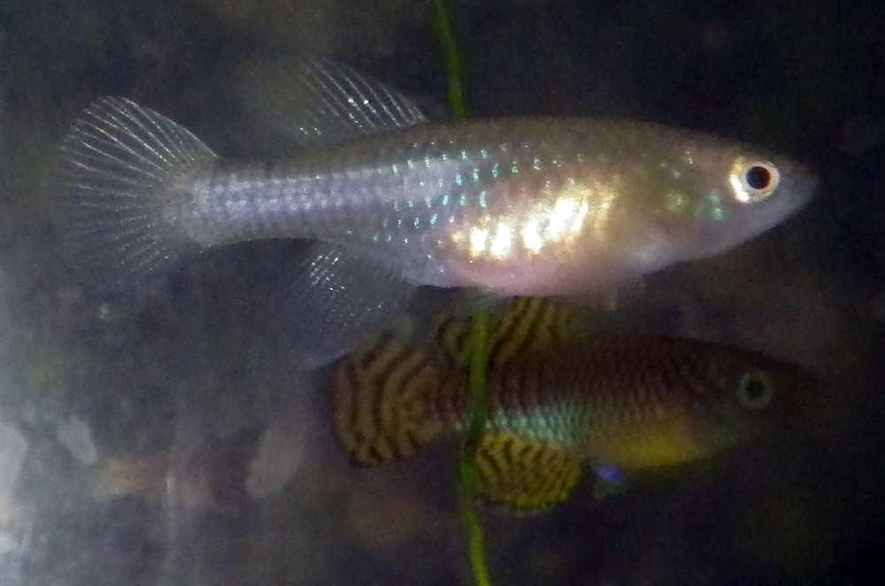 Pair of Nothobranchius korthausae, yellow form. Female in foreground.